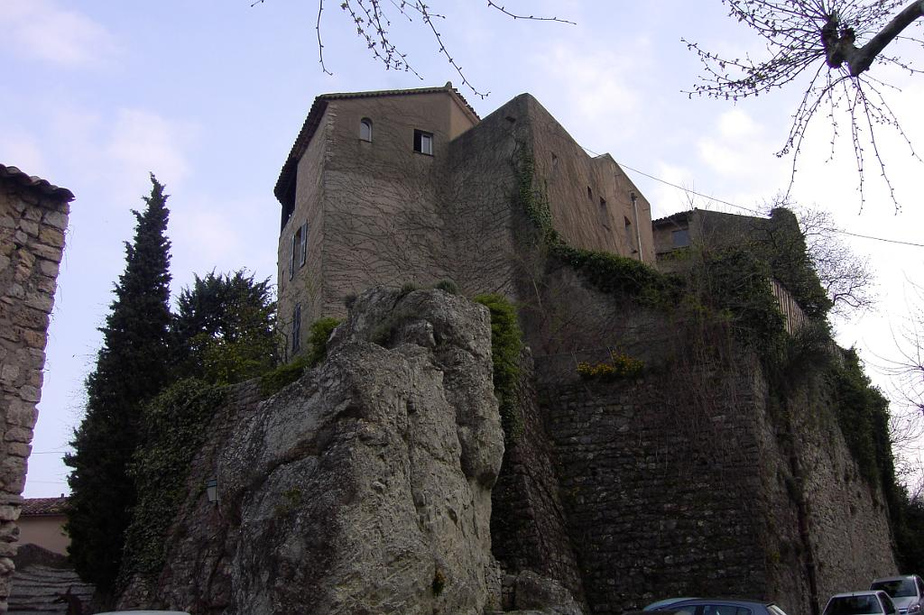 Seillans Chateau